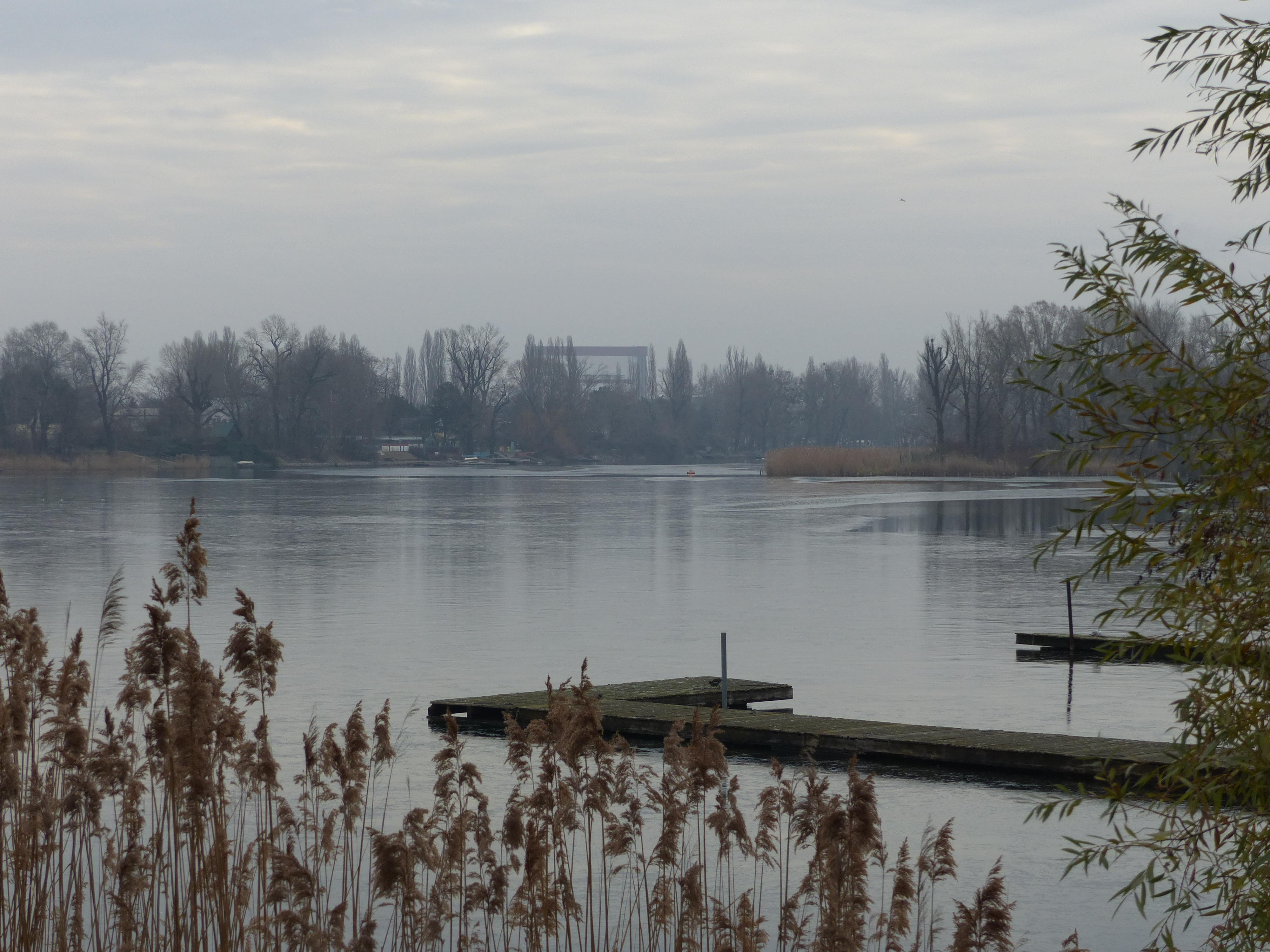 Danube in Vienna. Taken on Sunday, the 18th of December, 2016. Alte Donau.